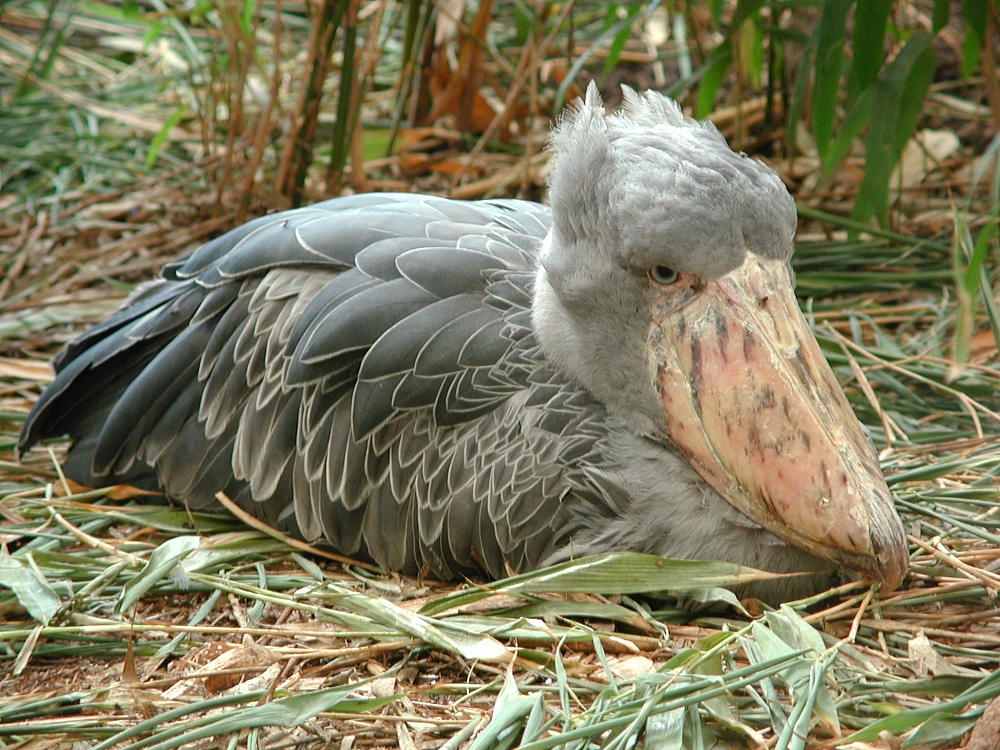 Balaeniceps rex, Zoological Garden, Frankfurt/Main, Germany